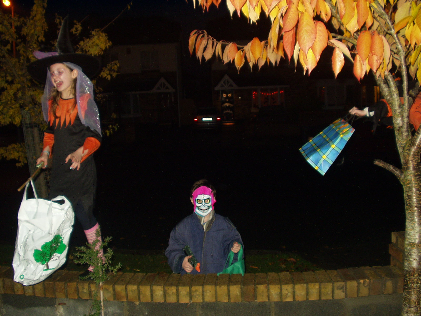 A typical Halloween "trick or treat" party in Dublin.